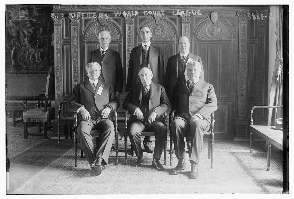 John Hays Hammond at the World Court Congress in 1916 with the other officers